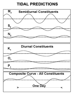 The principal tidal datums related to a beach profile. The intersection of the tidal datum with land determines the landward edge of a marine boundary. From NOS Tidal Datums Pub (on Naval Postgraduate School).